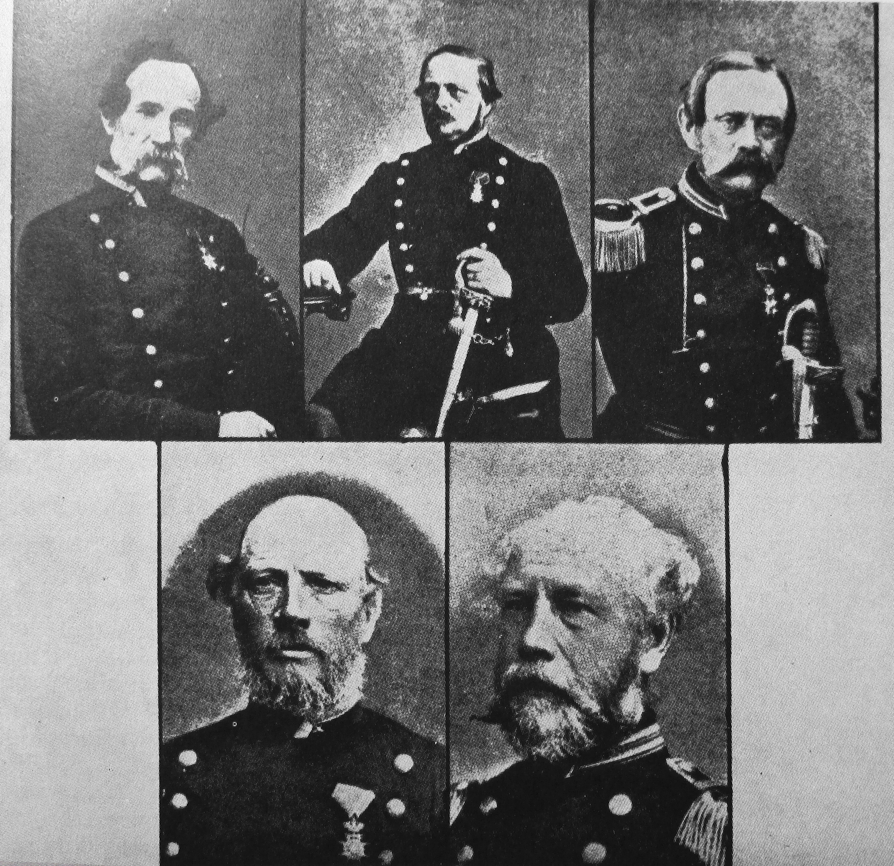 Bataljon commanders of the Gotlands nationalbeväring (the Gotland National Recruitment), 1880s. Top row, left to right: C. G. Meukow, C. O. A. af Klint and P. A. L. Gahne. Lower row, left to right: O. L. Gustafsson and Ad. v.Post.